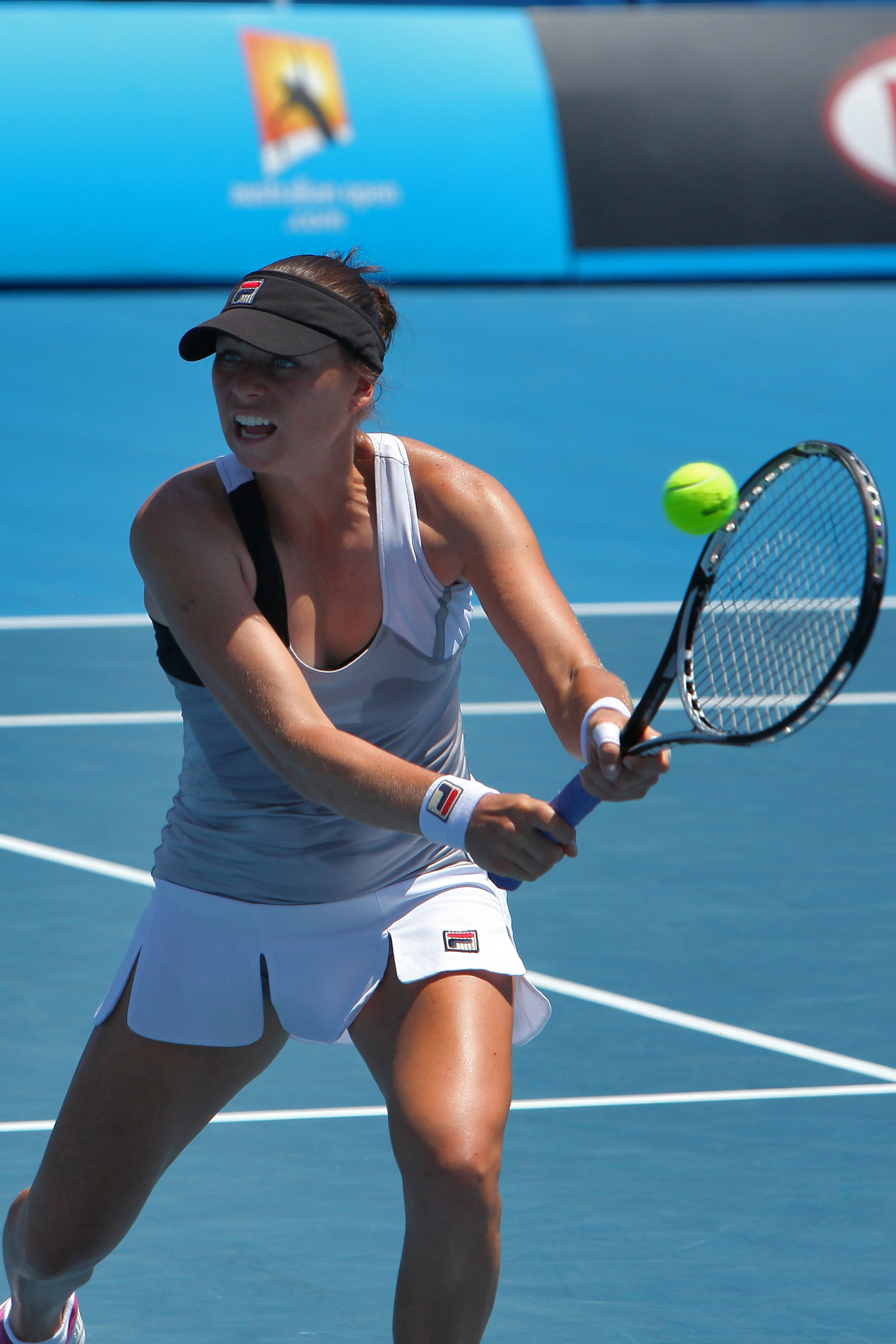 Zvonareva at the 2012 Australian Open.